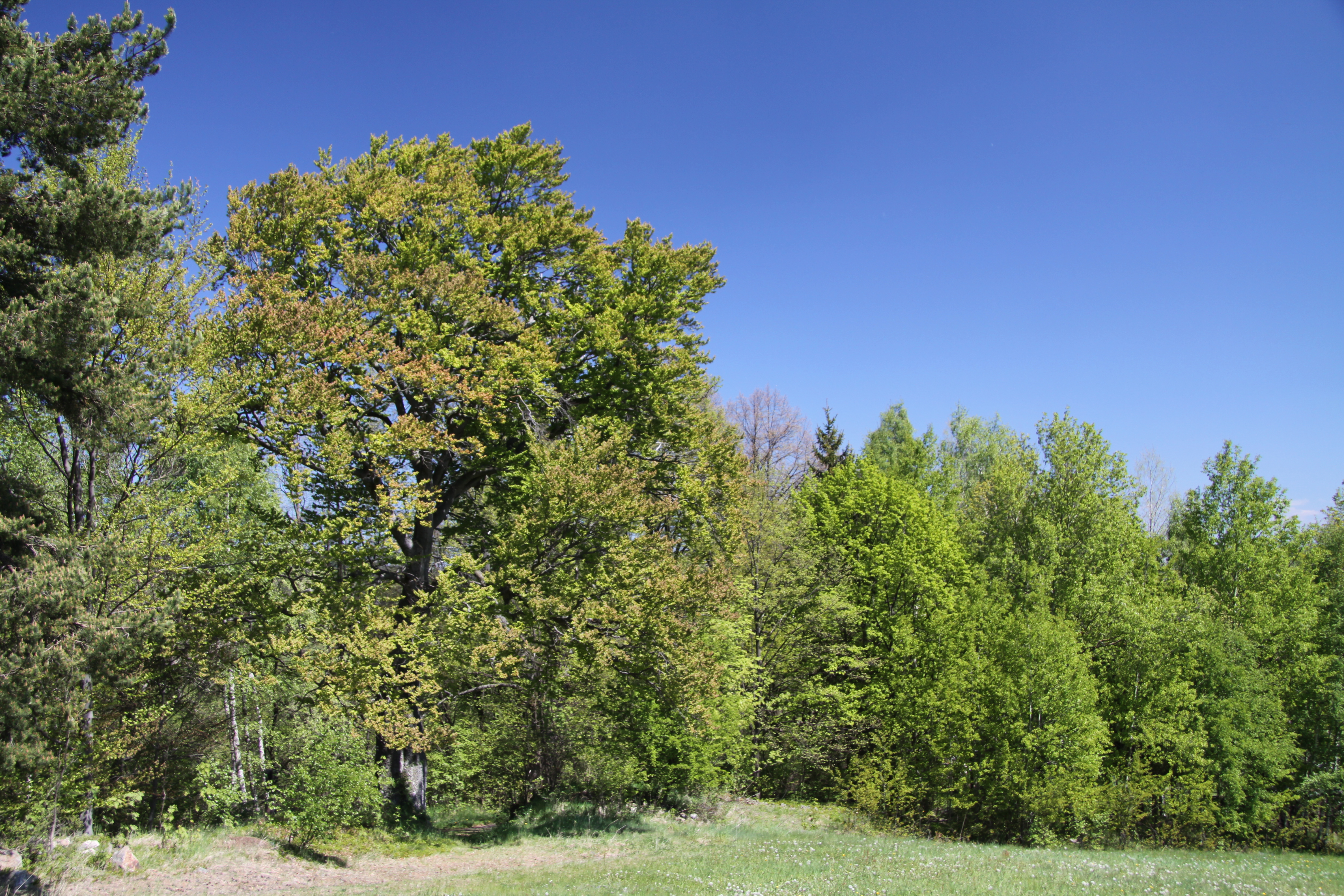 Famous tree called Úbislavický buk in Úbislav village, Prachatice District, Czech Republic